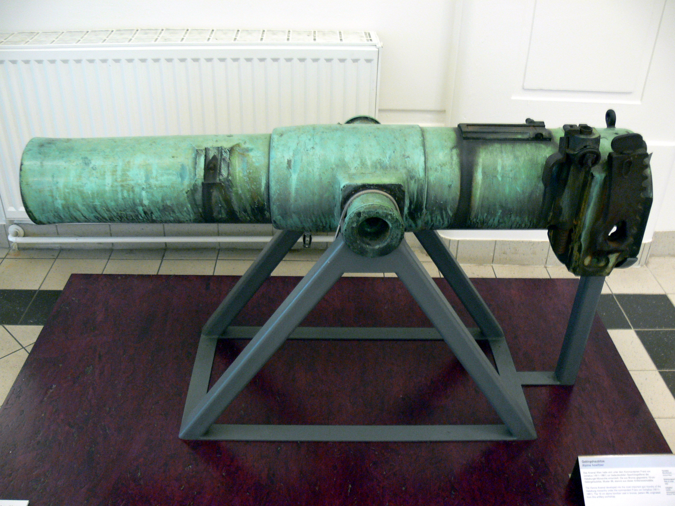 Technical Museum Vienna. Fortress howitzer, 10 cm, pattern 99, made by Arsenal Vienna in 1899.